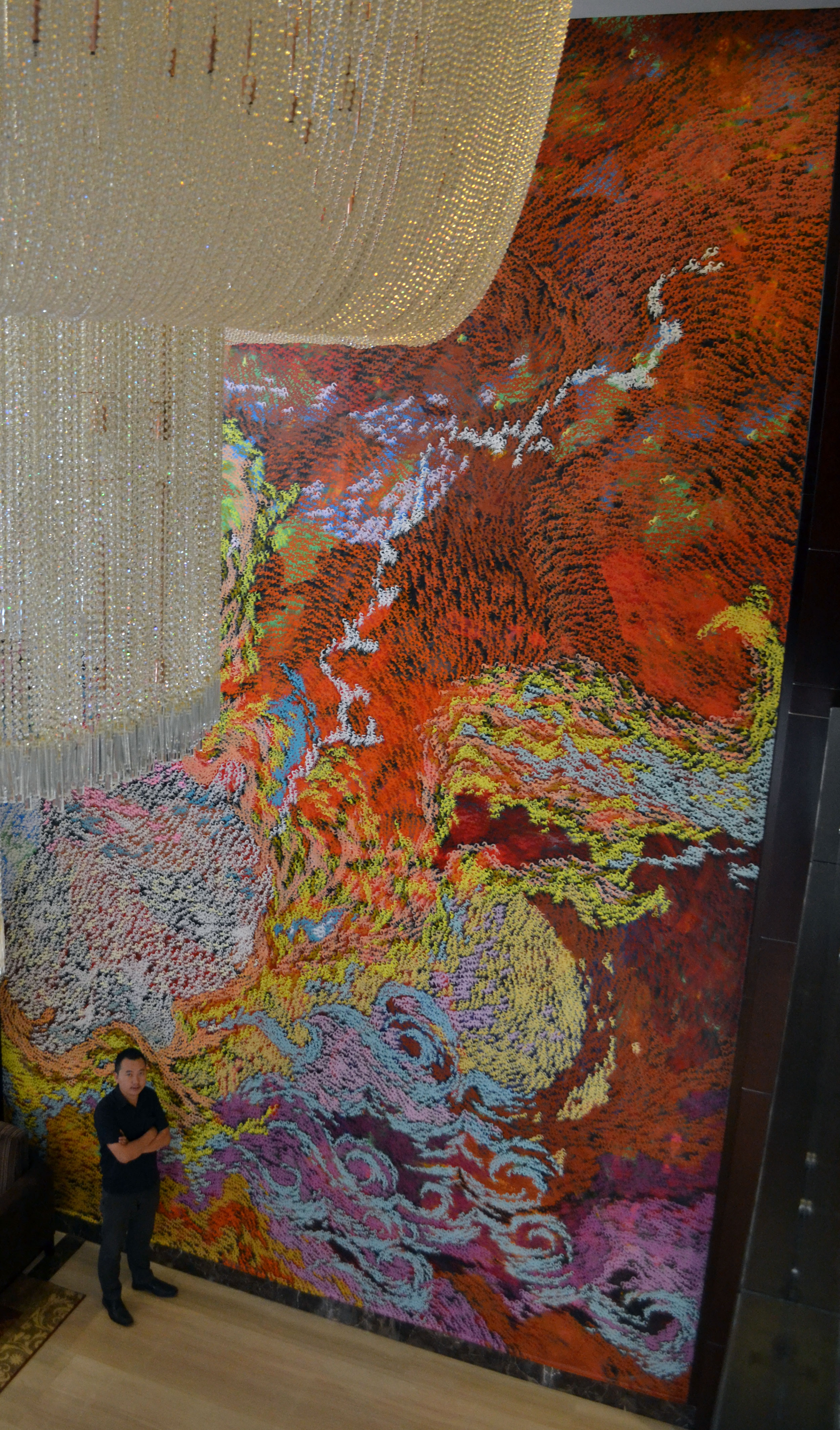 'Roaring Hoofs-30My homeland My steed' by OTGO Otgonbayar Ershuu 2012-2013, acryl on canvas, 720 x 440 cm, Best Western Premier Tuushin Hotel, Ulaanbaatar, Mongolia